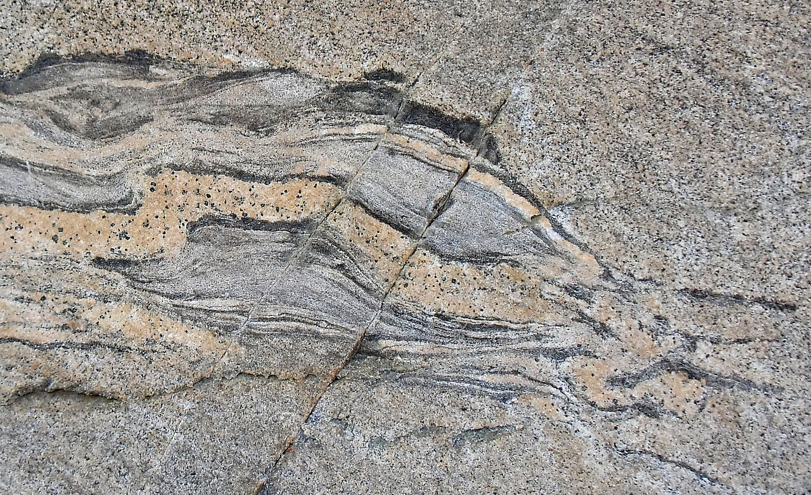 Metasedimentary xenolith in 2.6 billion year old fine-grained granite in Nunavut, Canada. View is about 2 ft by 1 ft.